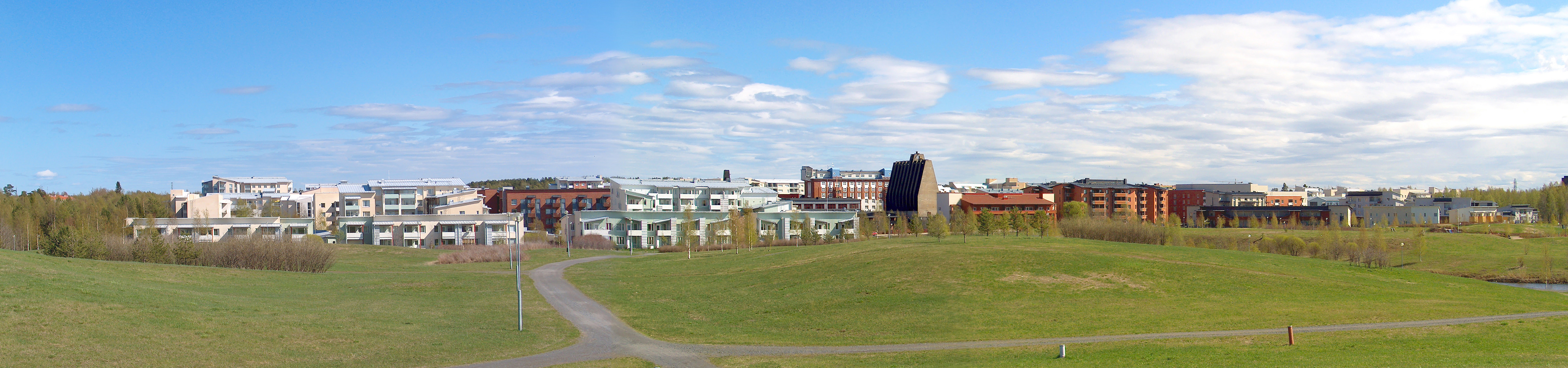 Panorama of Meritoppila, Oulu, Finland